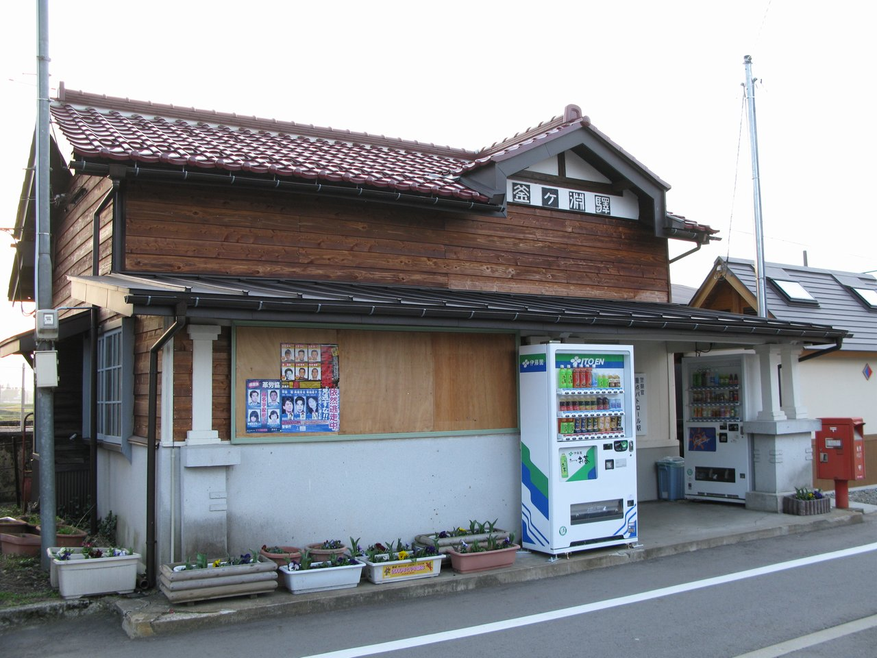 Kamagafuchi Station on Toyama Chiho Railway Tateyama Line